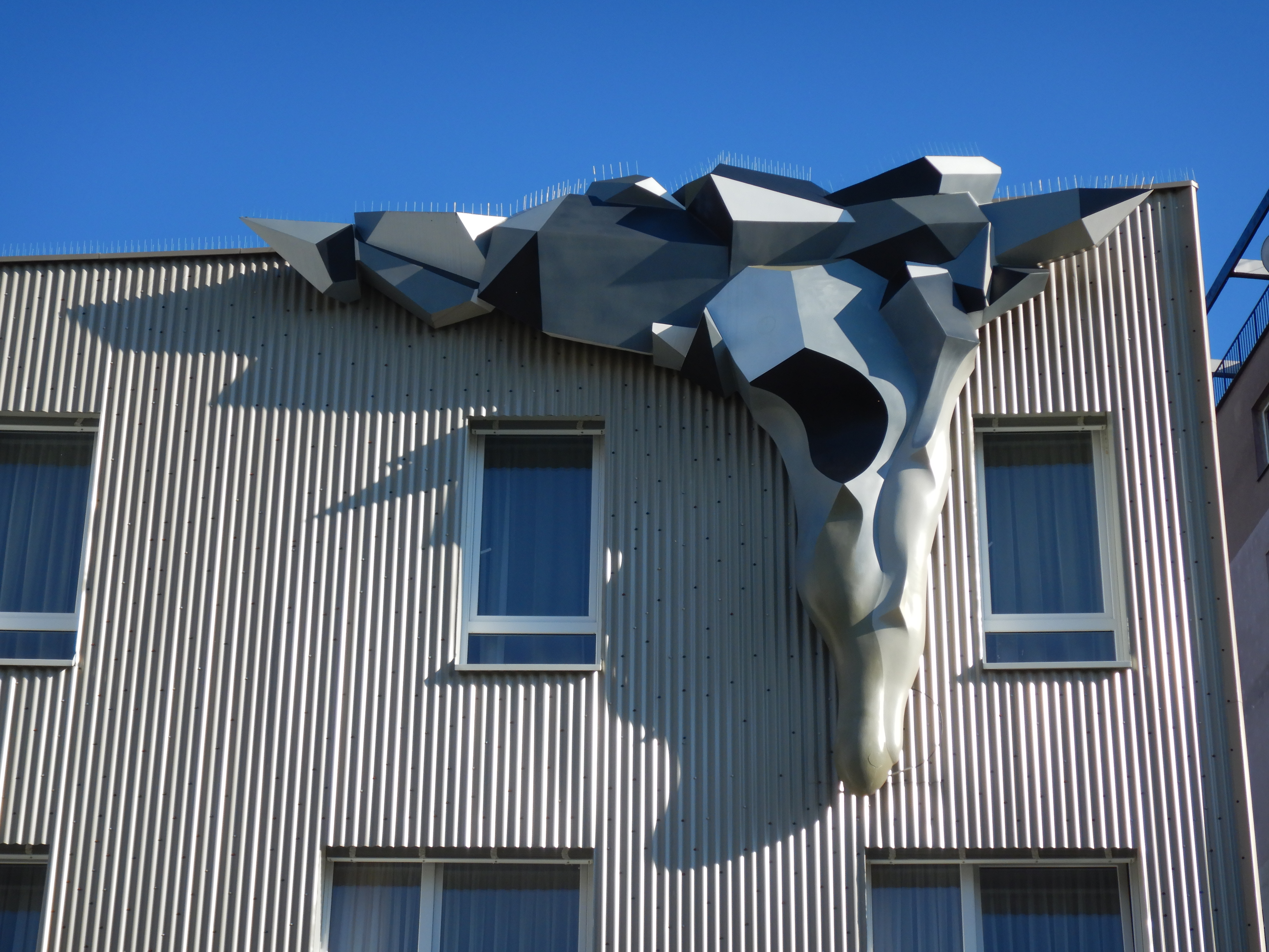 Photo of a sculpture Liquid cubism made by Jiří David in 2017. It is at hotel Nezvalova archa, Nezvalova 3, Olomouc.